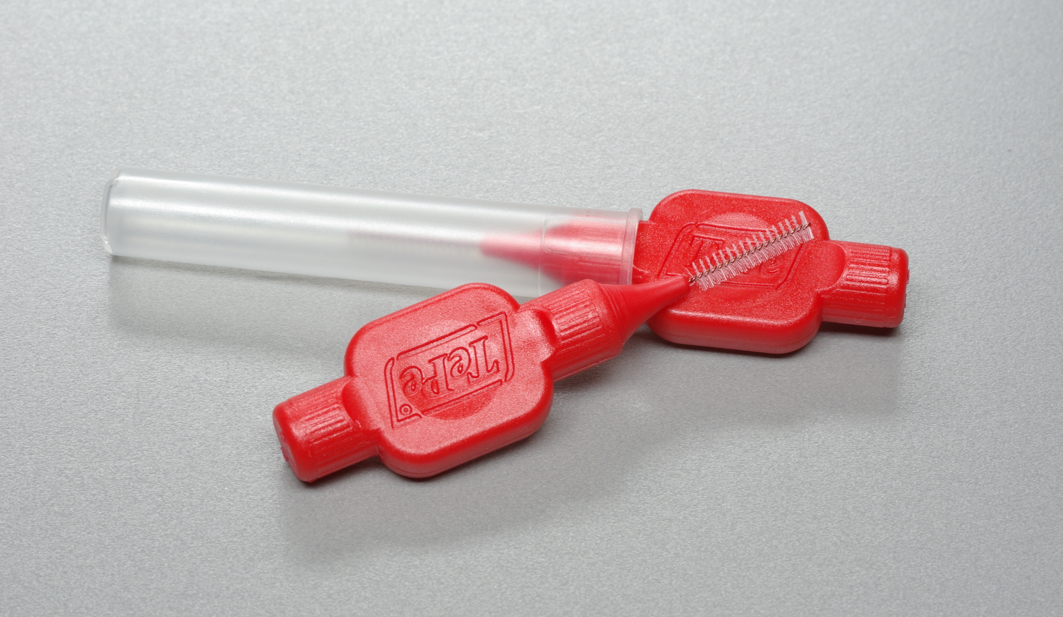 Interdental brush